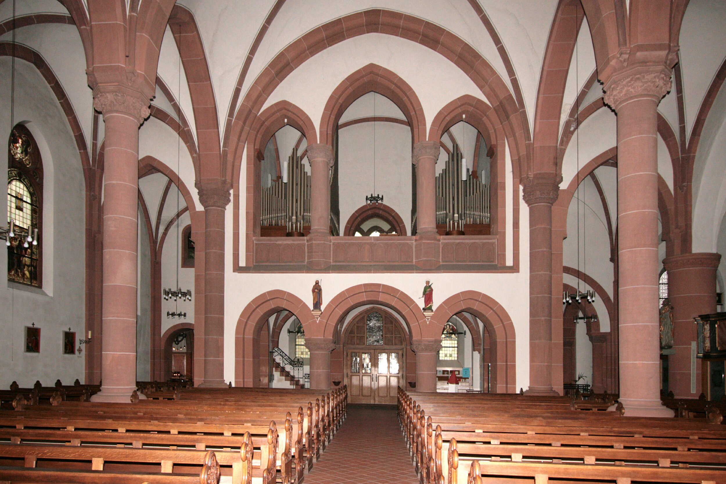 Inside view towards the altar/Innenansicht zum Altar